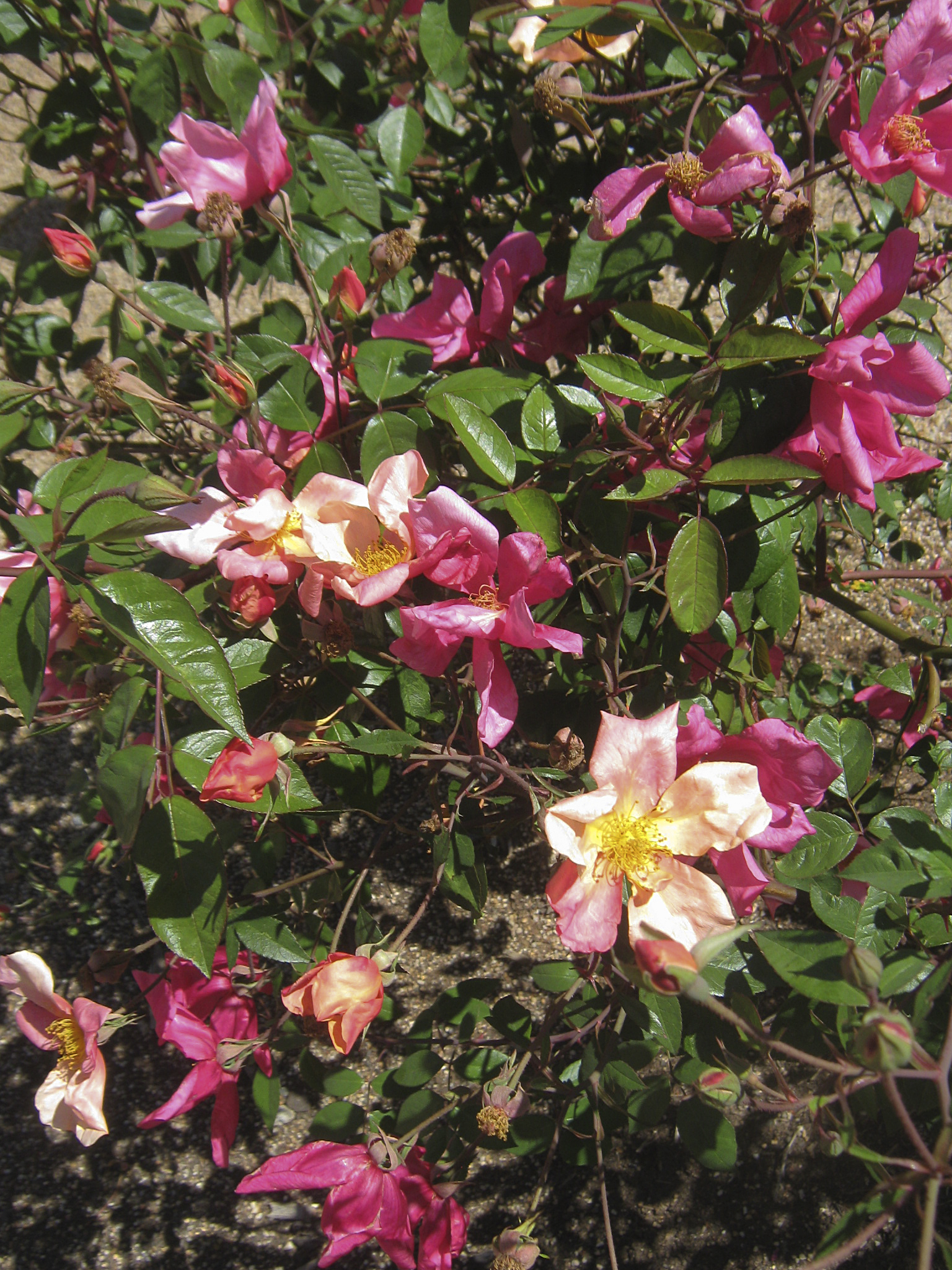 Rose 'Mutabilis' old Chinese garden rose; photographed in the Nieuwesteeg Heritage Rose Garden, Maddingley Park, Bacchus Marsh, Victoria